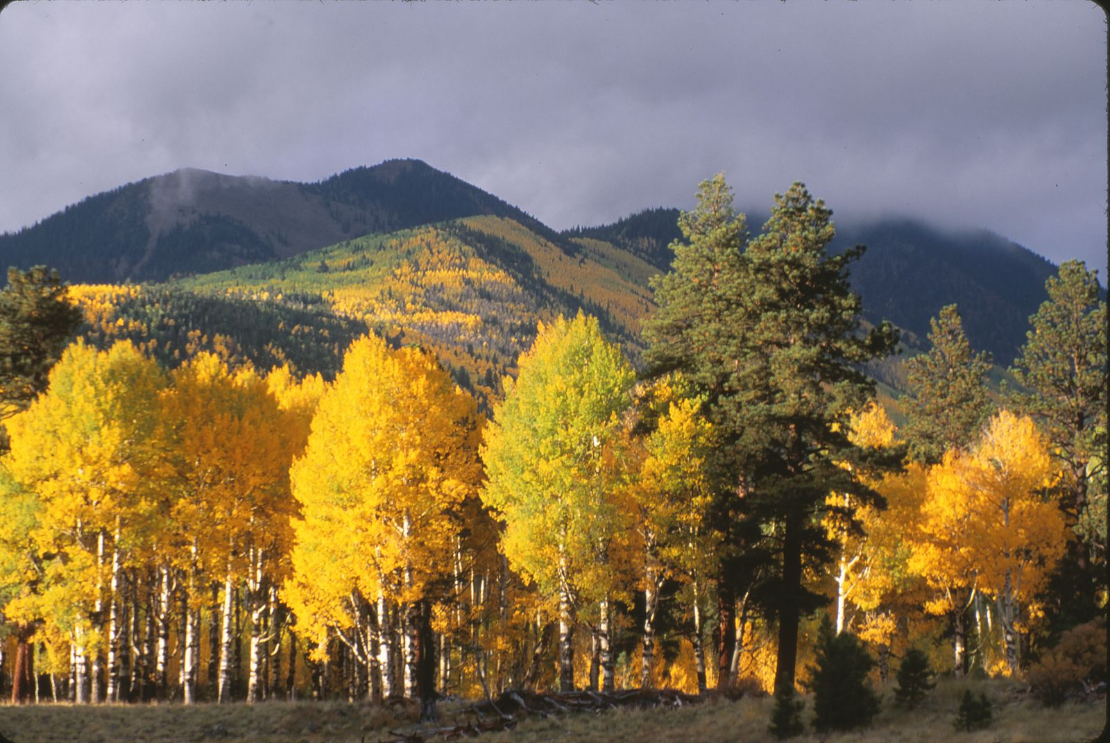 Quaking aspen (Populus tremuloides) in Lockett Meadow in the San Francisco Peaks of Coconino National Forest, Arizona in October 1996